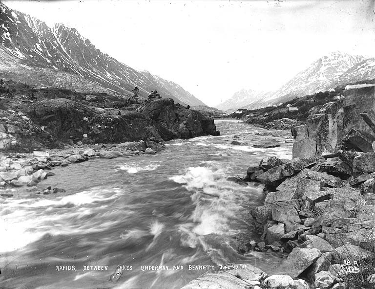 Caption on image: "Rapids between Lakes Linderman and Bennett. June 4th '99"" Original image in Hegg Album 1, page 22 . Original photograph by Eric A. Hegg 216; copied by Webster and Stevens 38.A . Klondike Gold Rush. Subjects (LCTGM): Rivers--British Columbia; Rapids--British Columbia Subjects (LCSH): One Mile River (B.C.)